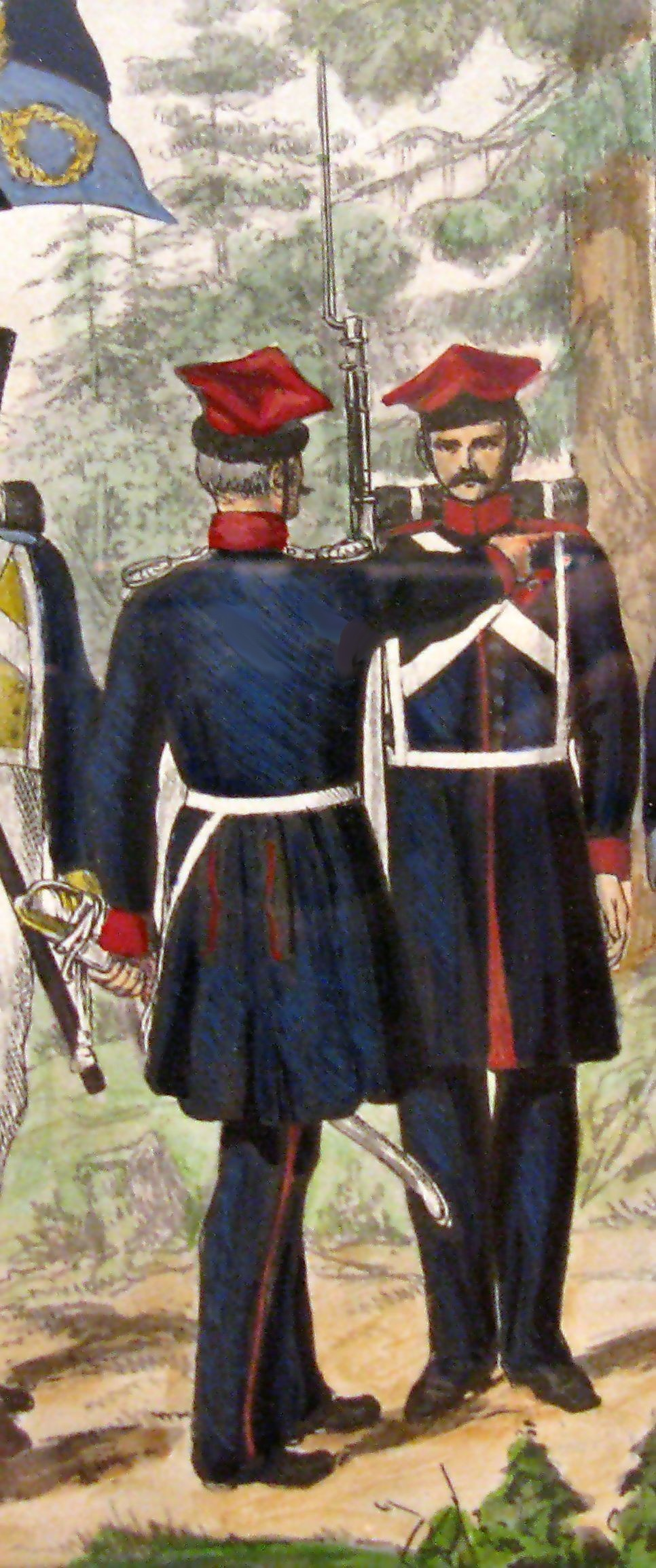 10th Infantry Regiment of November Uprising